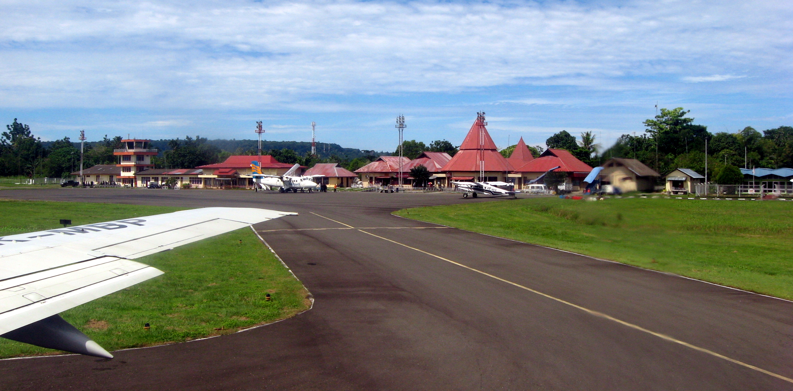 View of Rendai Airport while on an airplane